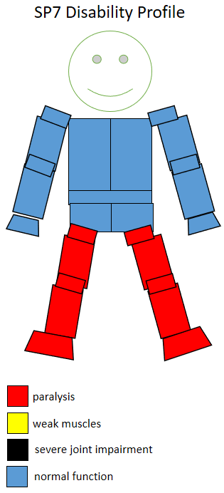 Shows F7 SP7 disability sports profile. Created using information from